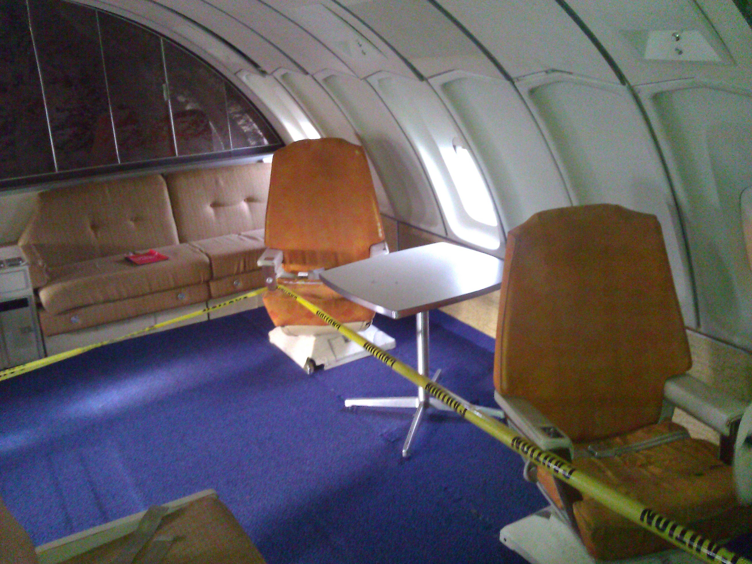 Interior of Boeing 747 (N7470)